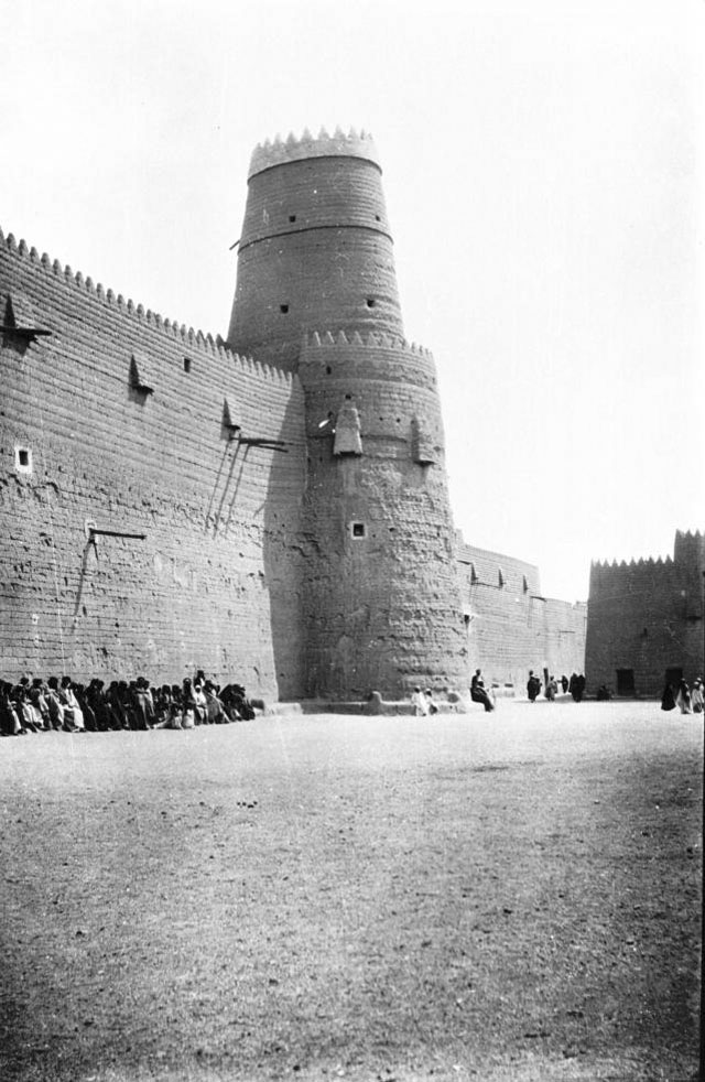 A photo of Barzan Palace in Ha'il, 1914, taken by Gertrude Bell (1868 – 1926)